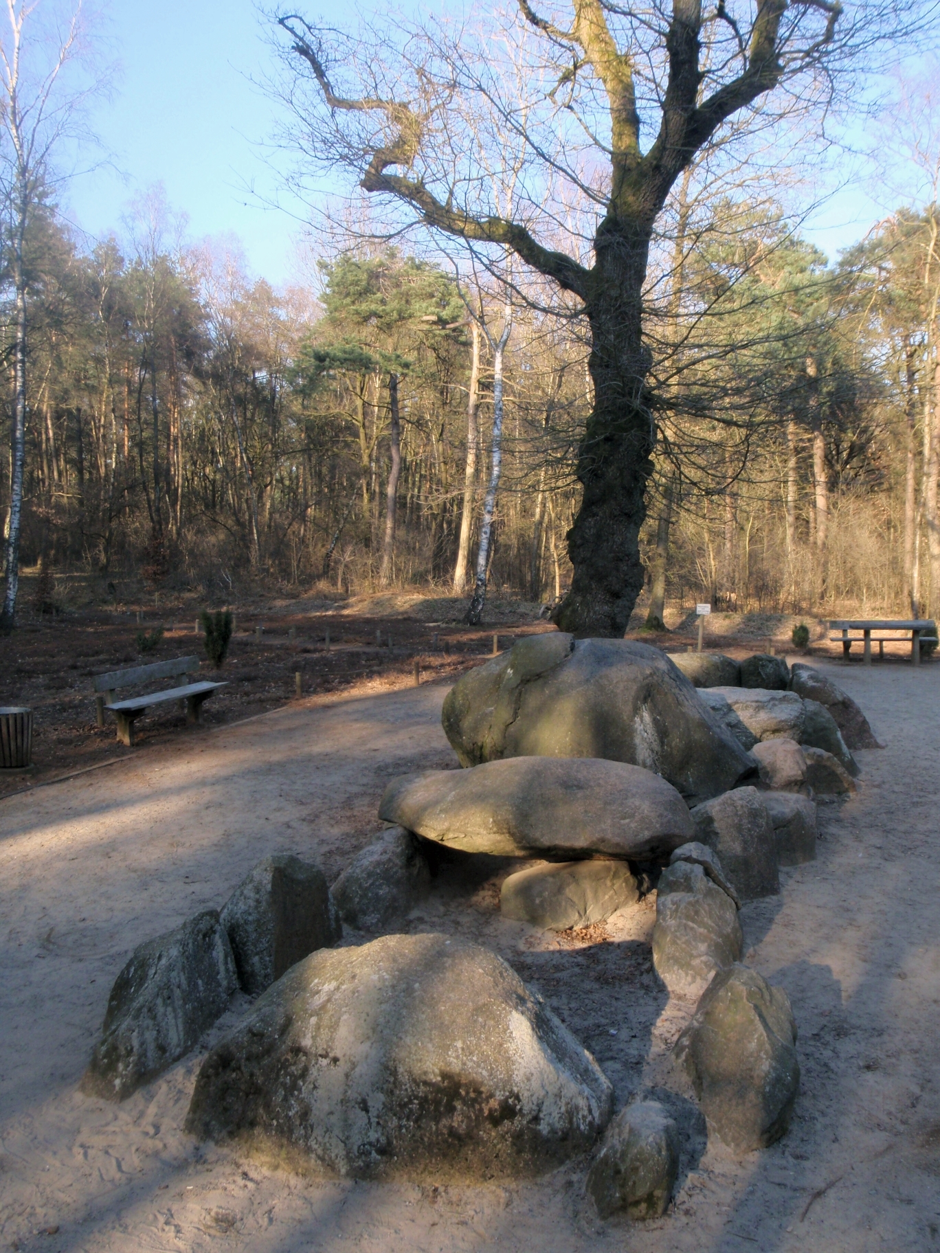 Dolmen "Devil's stones" nearby Heiden, Kreis Borken, North-Rhine-Westphalia in Germany. Photo was taken 20/03/2011.